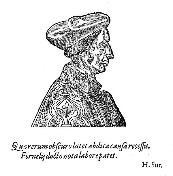 Portrait of Jean Fernel, French physician.